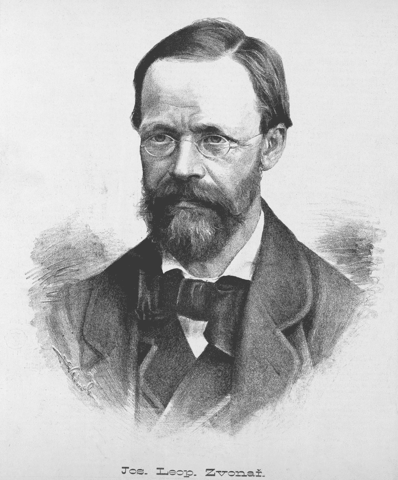 Portrait of Josef Leopold Zvonař (1824 - 1865), Czech composer and teacher of music